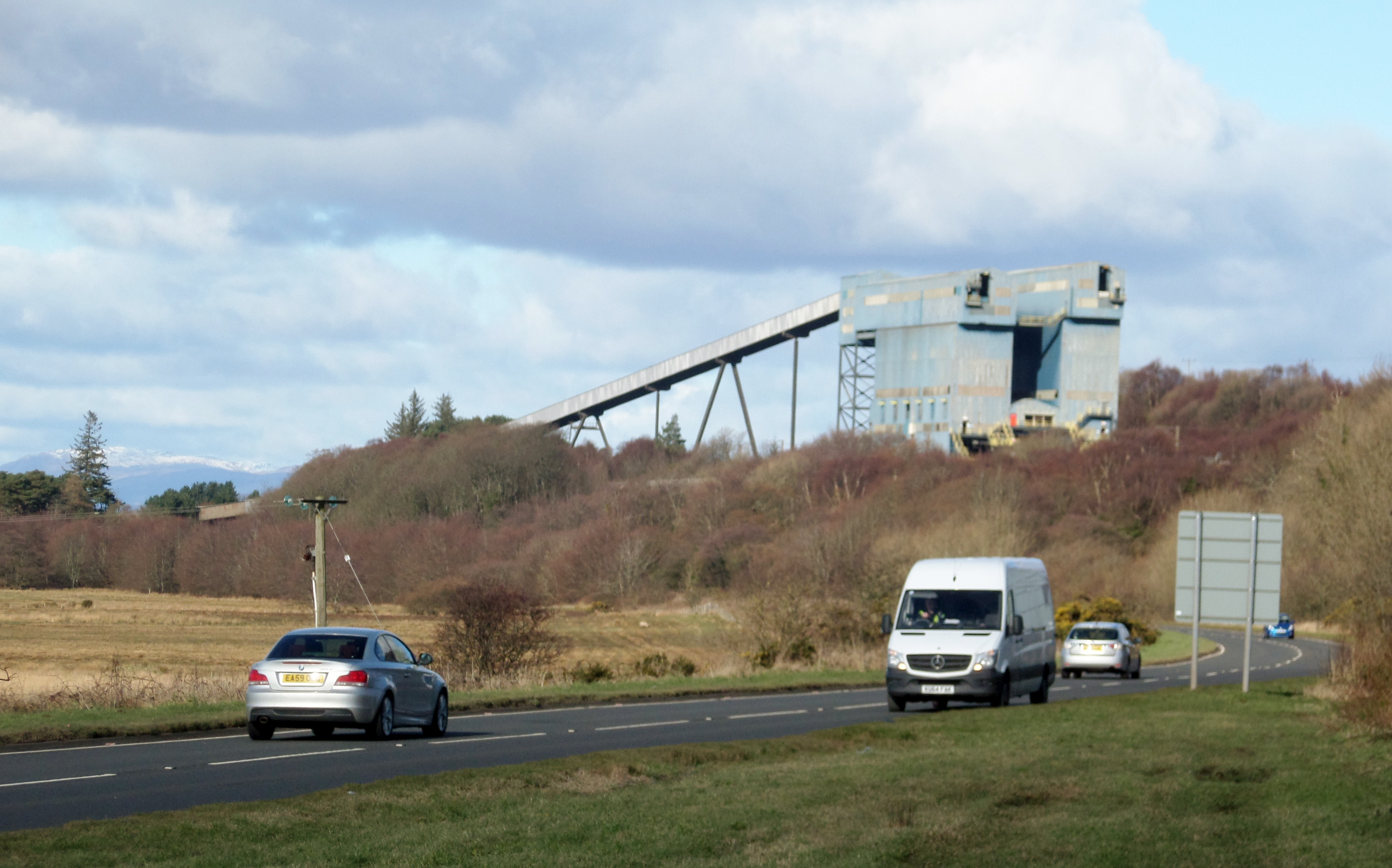 Hunterston Railhead